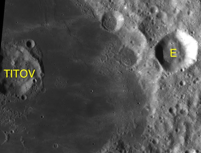 Part of the chart LAC-49 used for the presentation